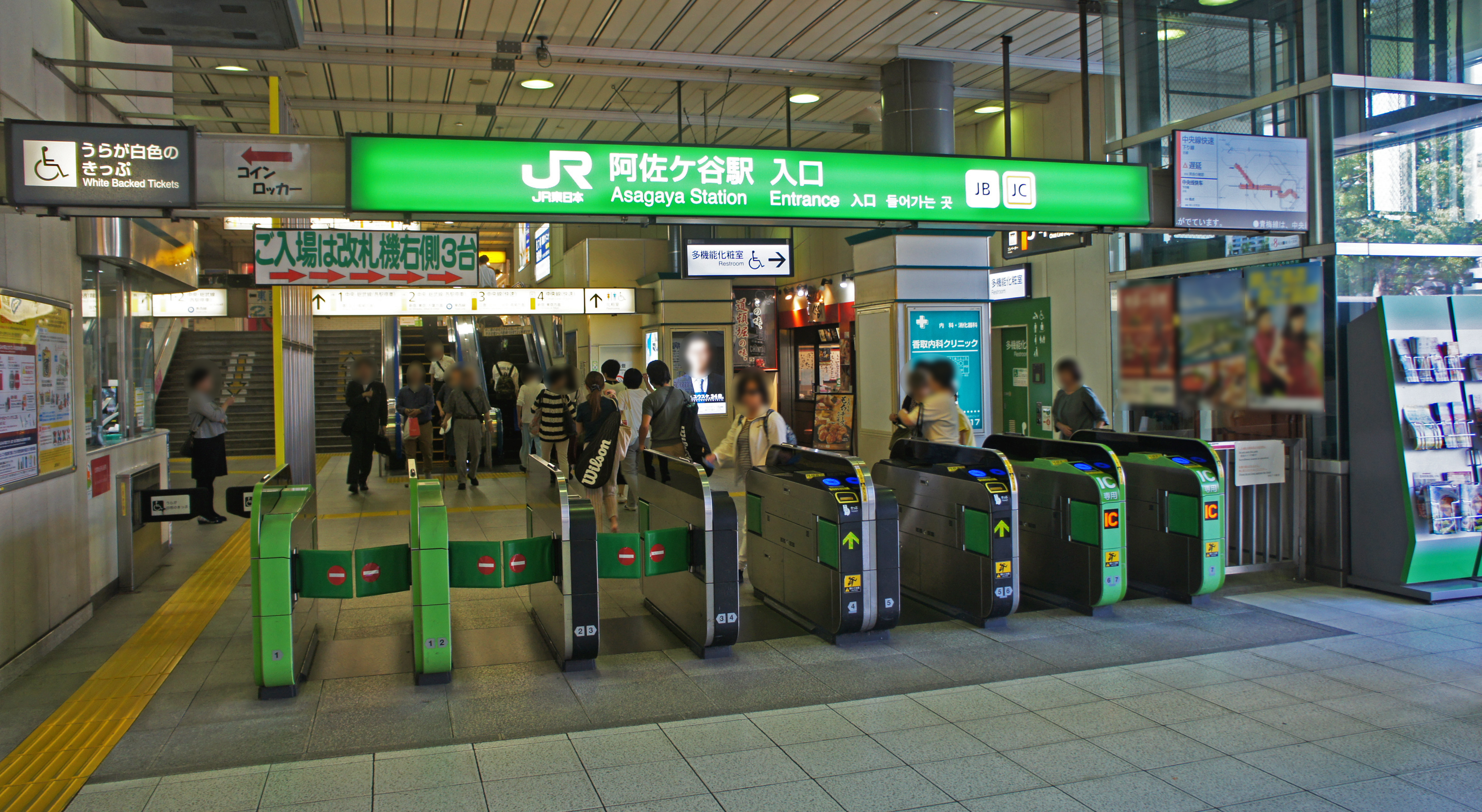 West Gates of JR Chuo-Main-Line Asagaya Station